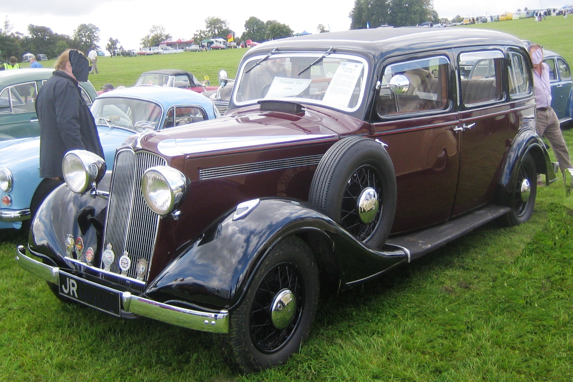 Vauxhall 'Big 6' in a field in Hertfordshire. The design is from the late 1930s and the car was probably built in 1938 or 1939, though I am not sufficiently expert to be sure that it wasn't in fact, assembled in the late 1940s before Vauxhall had their post war range up and running. This shape of radiator, wire wheels, etc was available between August 1935 and August 1936 when they were replaced by a vertically curved radiator shell and pressed steel wheels. May be checked with display advertisements in nationally distributed newspapers. Here, helpfully, the shape of the newer radiator may be viewed next to the car in question. The bit of the UK government database we are permitted to consult on such matters gives the year of manufacture as 1936 and the date of first registration as 01 February 1936. So if the database is correct, this car is a little older than I (this is the photographer writing) has hitherto thought likely. The cylinder capacity according to the government database is 4086cc —and of course, as the photographer would know this was the capacity of the 4-litre (incidentally, most ably written about at) Sunbeam-Talbot engine of similar vintage also used in the big Humbers